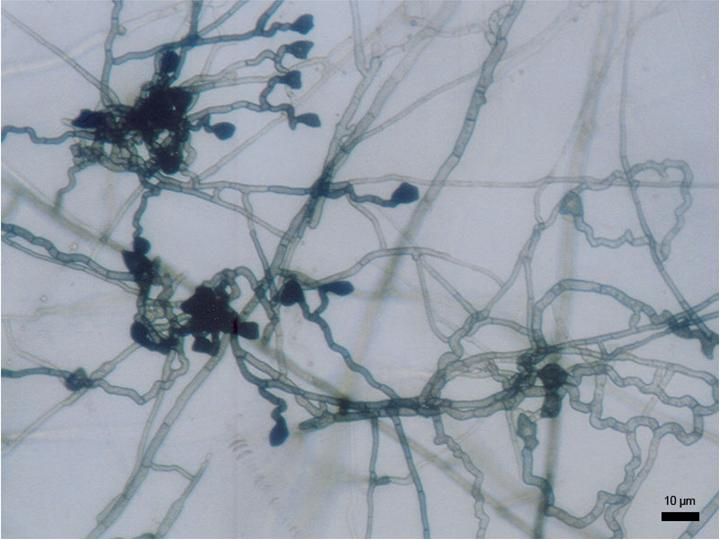 Appressoria and Hyphae of Colletotrichum sublineolum